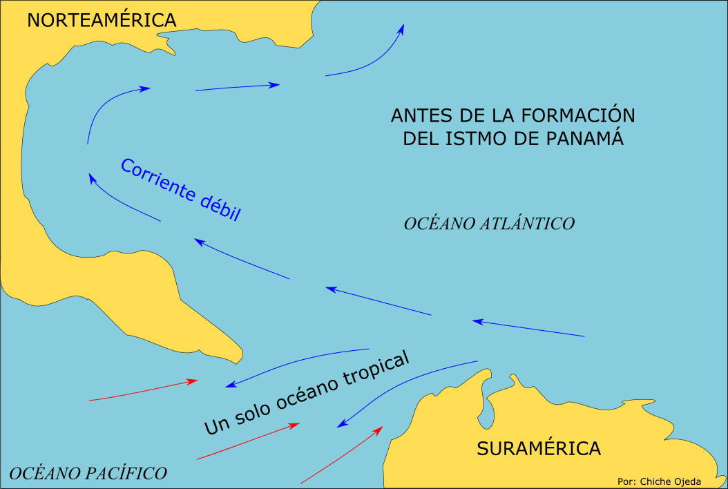 Before the formation of the Isthmus of Panama there was only one tropical ocean, this Central American seaway, was a body of water that communicated the Atlantic Ocean with the Pacific Ocean, which once separated North America from South America. There is also a weak marine current that came from the Atlantic Ocean, from east to west flowing through the Caribbean and the north coast of South America entering the Gulf of Mexico, and part of that current entering the Pacific Ocean. The formation of the isthmus found significant changes in ocean currents, including the creation of the Gulf Stream, which led to warmer temperatures in northern Europe and the formation of a large ice sheet across North America.